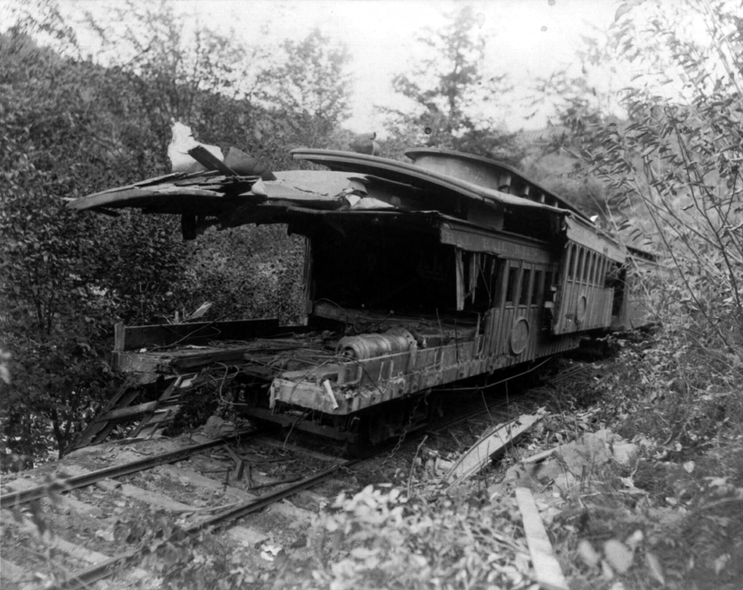 Aftermath of Mud River Disaster, October 1888